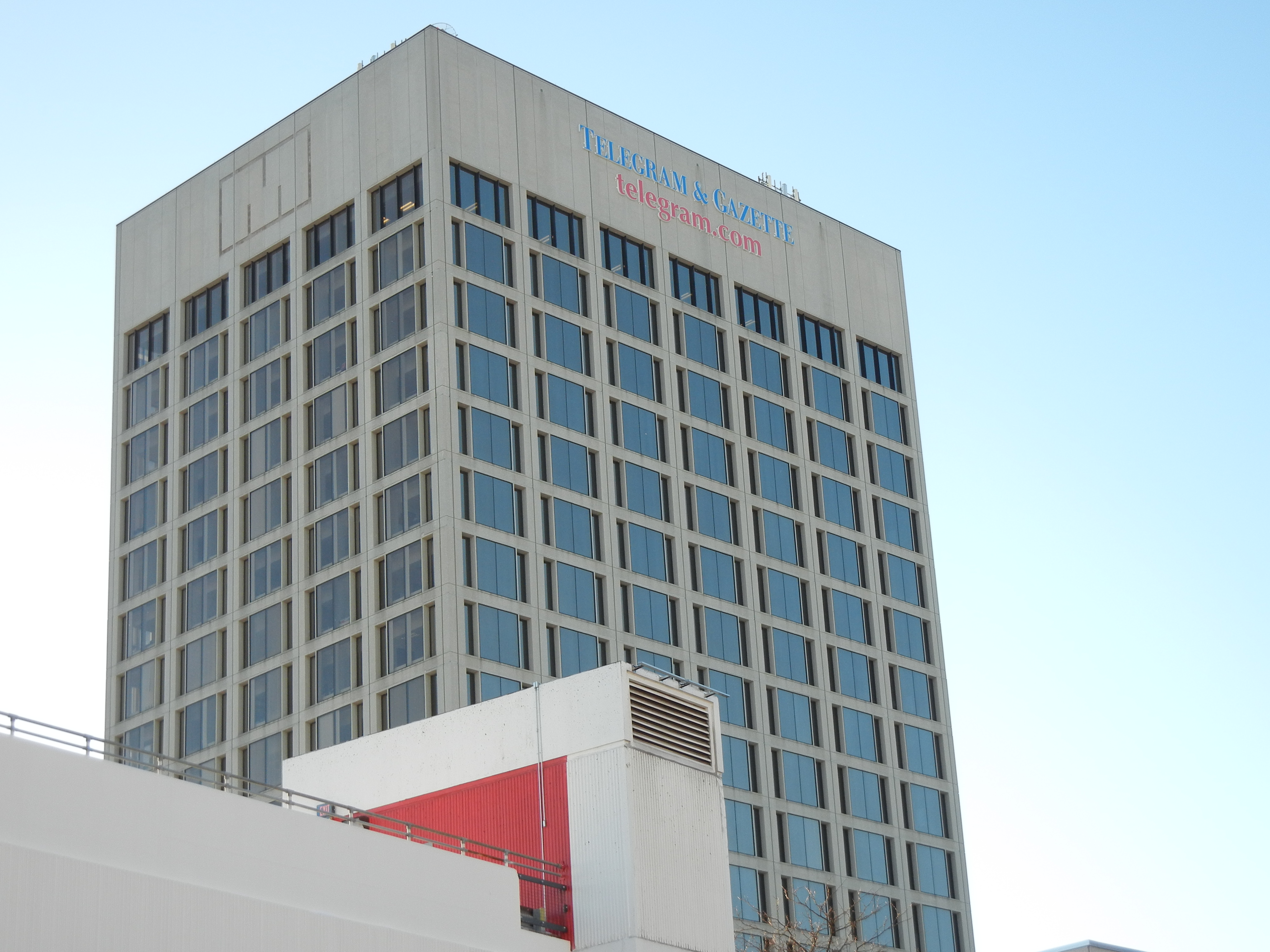 Closeup of 100 Front Street in Worcester, Massachusetts taken on January 26, 2014 from Commercial Street